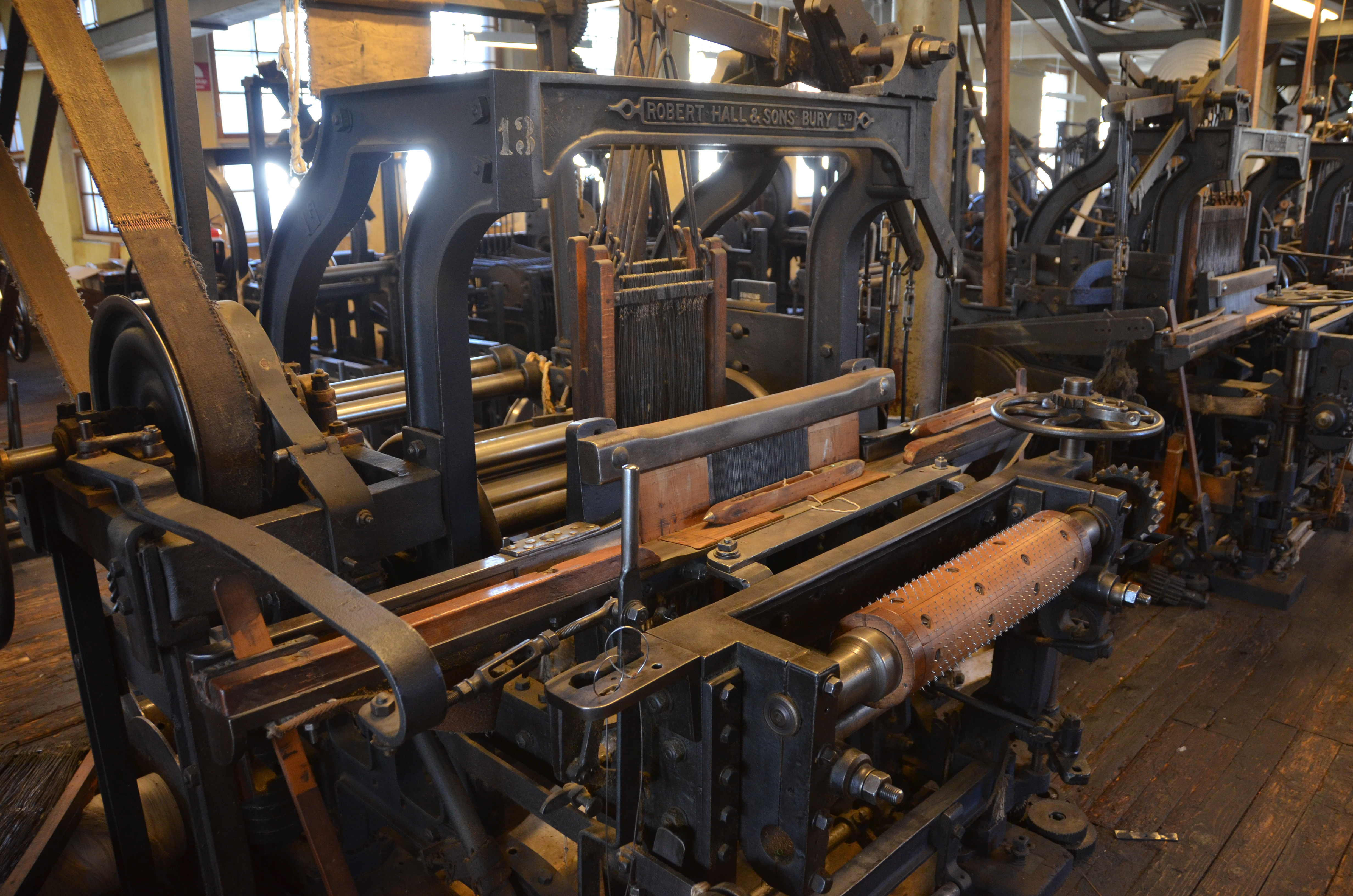 Loom in Göteborgs Remfabrik (Gothenburg Belt Factory) Made around 1905 by Robert Hall & Sons, Bury, England out of operation since 1977 and today part of on-site museum